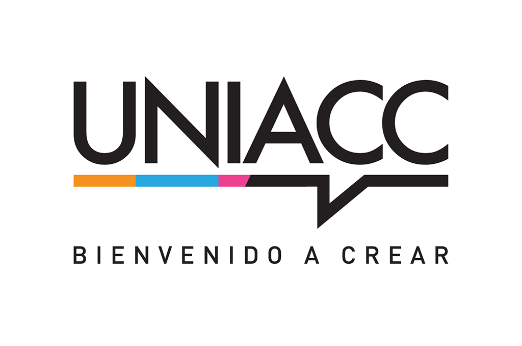 Welcome to create. Source: UNIACC University.